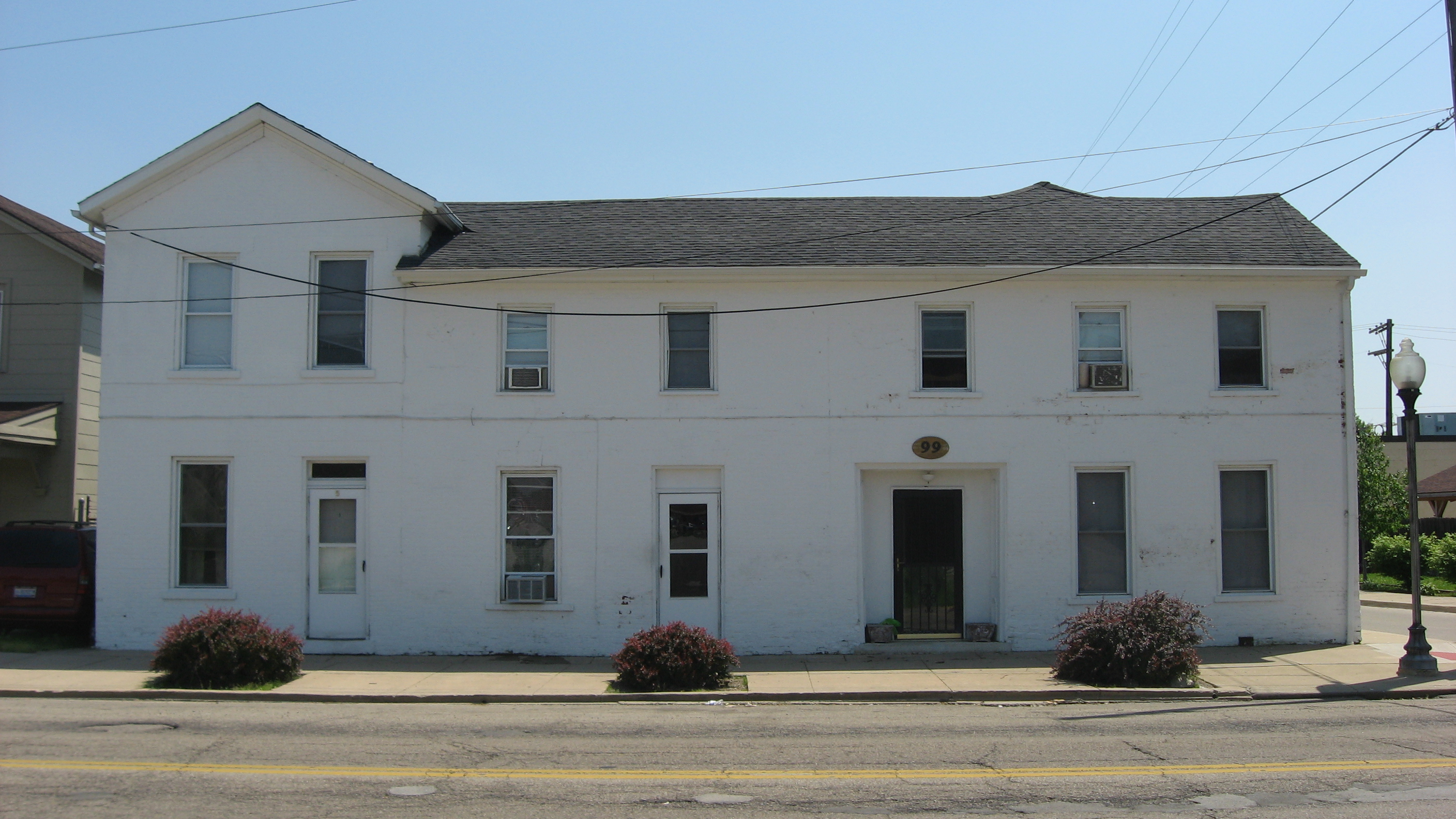 Front of the Alexander Conner House, located at 99 E. Second Street in Xenia, Ohio, United States. Built in 1836, it is listed on the National Register of Historic Places.